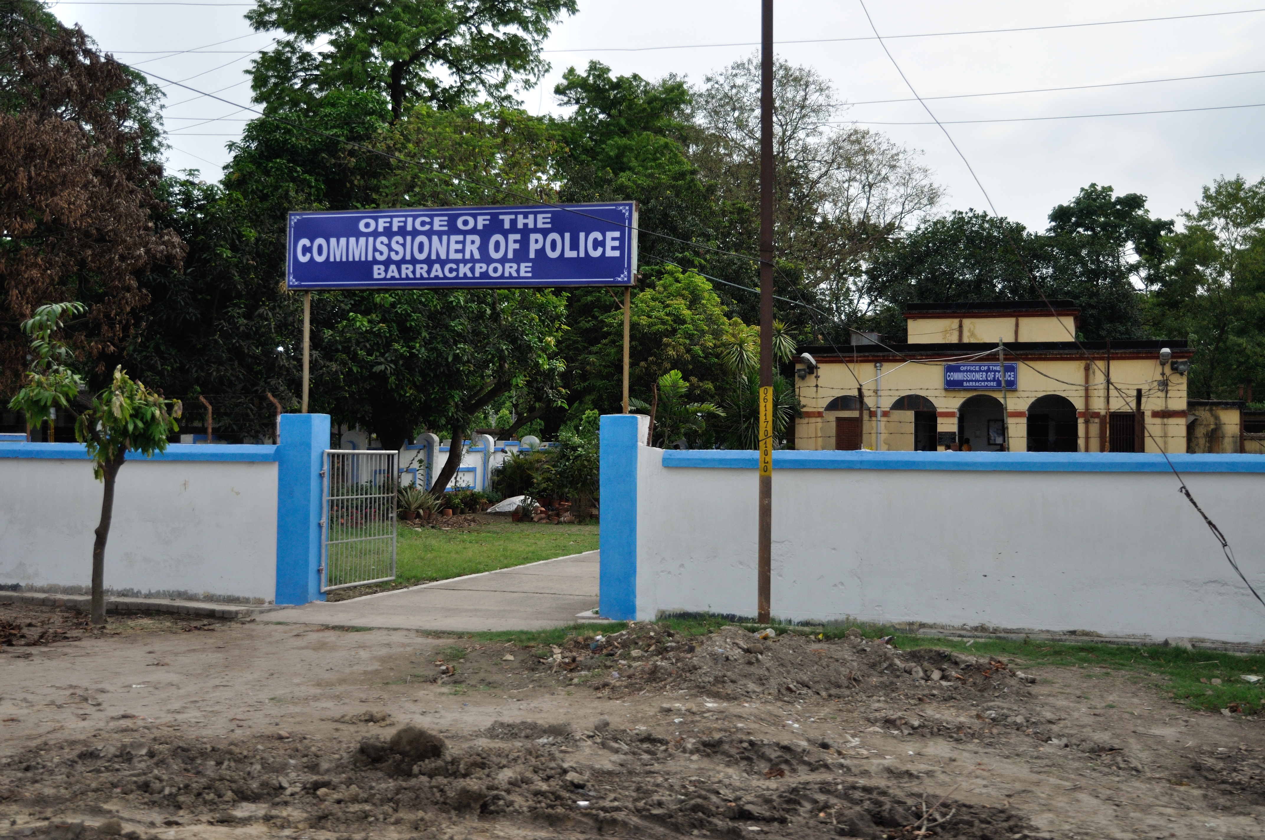 Photographed in greater Kolkata.